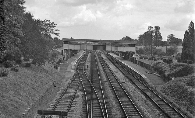 Badminton Station. View eastward, towards Swindon, Reading and London; ex-Great Western 'Badminton cut-off' main line, London, Swindon etc. - Severn Tunnel and South Wales, Bristol via Filton Junction and (since 1972) Bristol Parkway, closed 3/6/68 with other intermediate stations on this busy high-speed section.